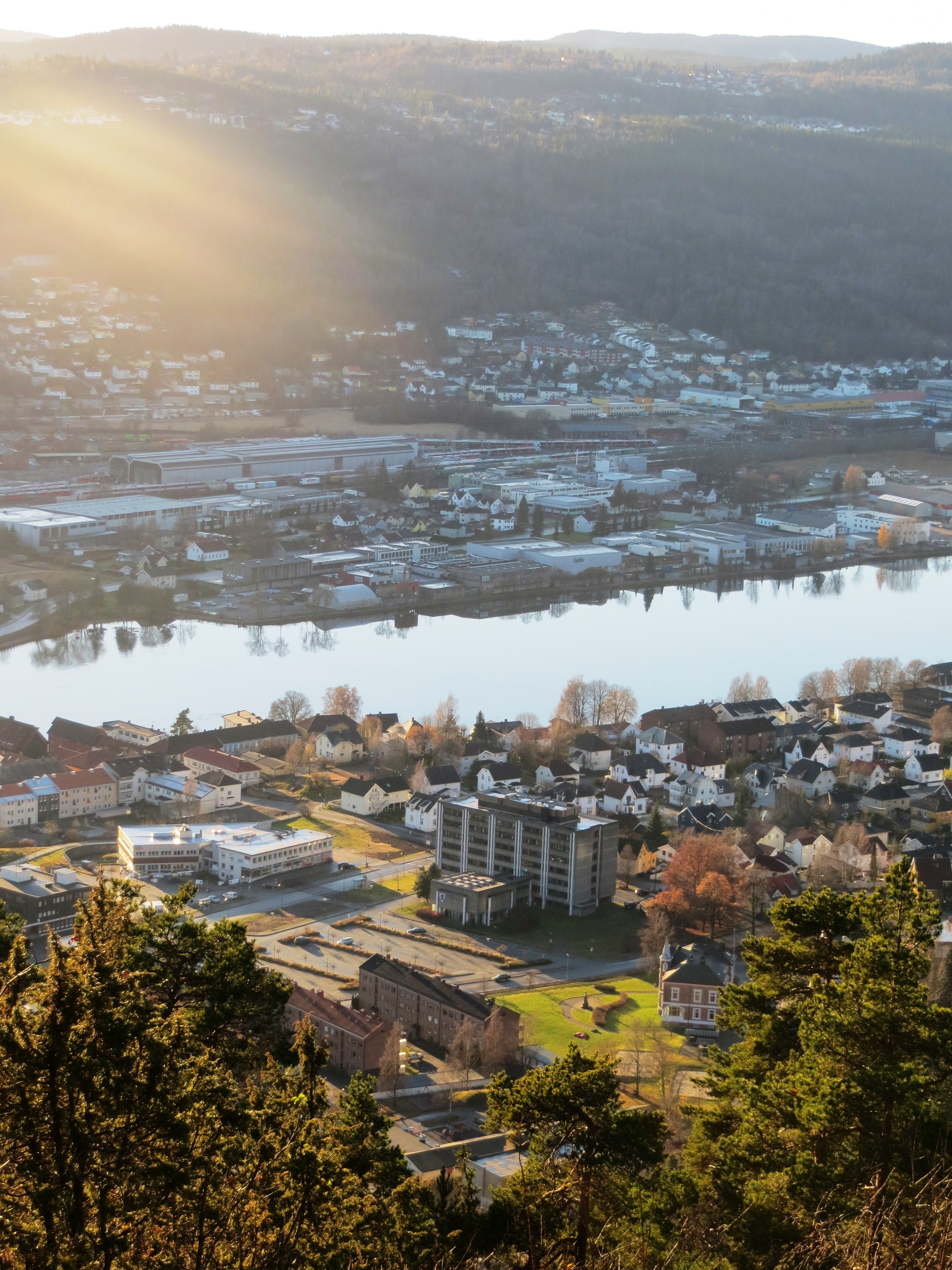 View of Bragernes ward, in the city of Drammen, Norway.